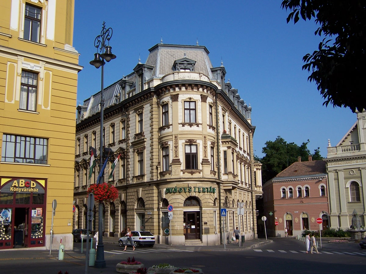 Lóránt Palace. Széchenyi Square, Pécs, Hungary